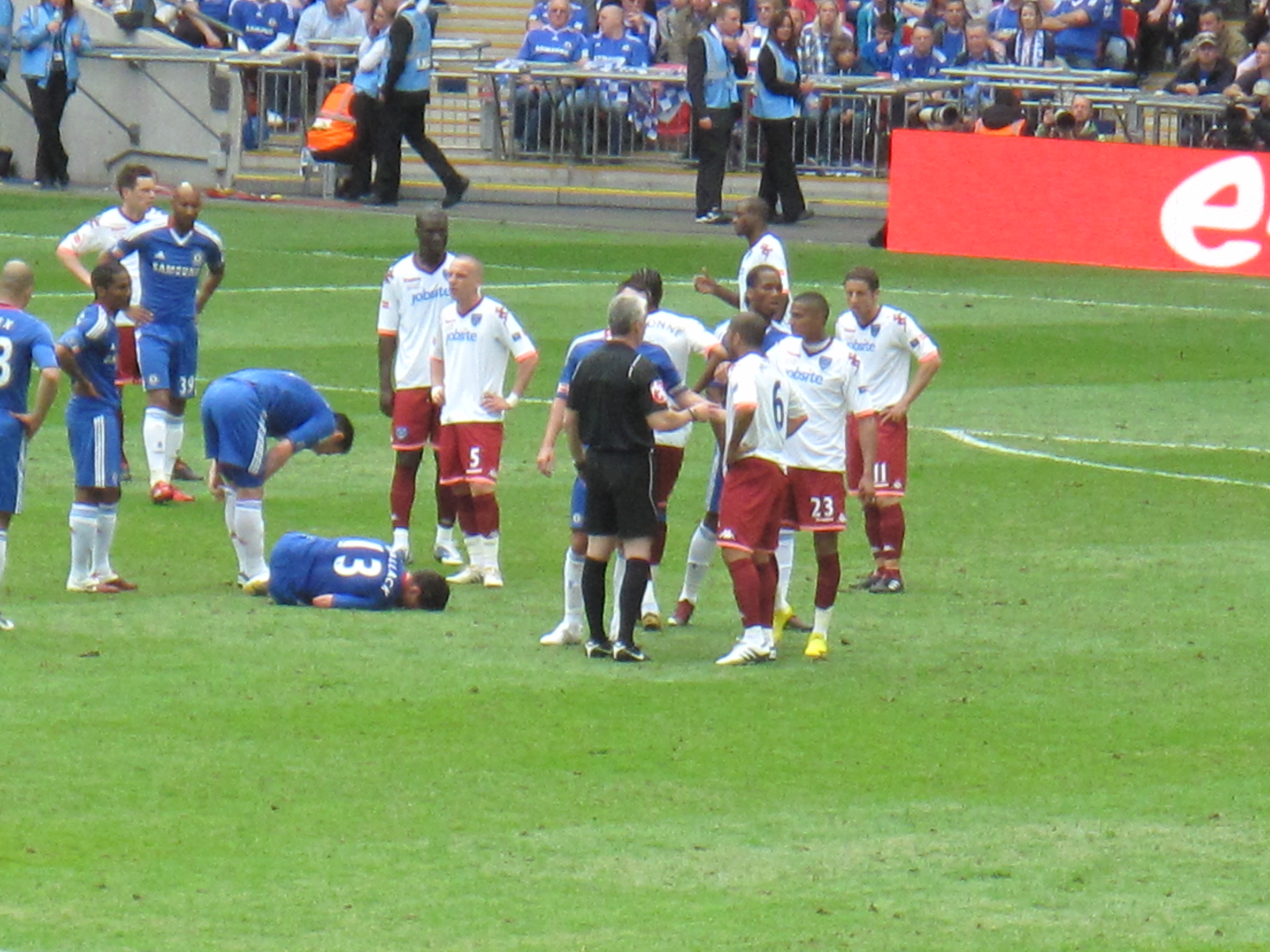 Michael Ballack of Chelsea FC lies on the ground in pain after a tackle from Portsmouth FC's Kevin-Prince Boateng injured his ankle at the 2010 FA Cup Final at Wembley Stadium.